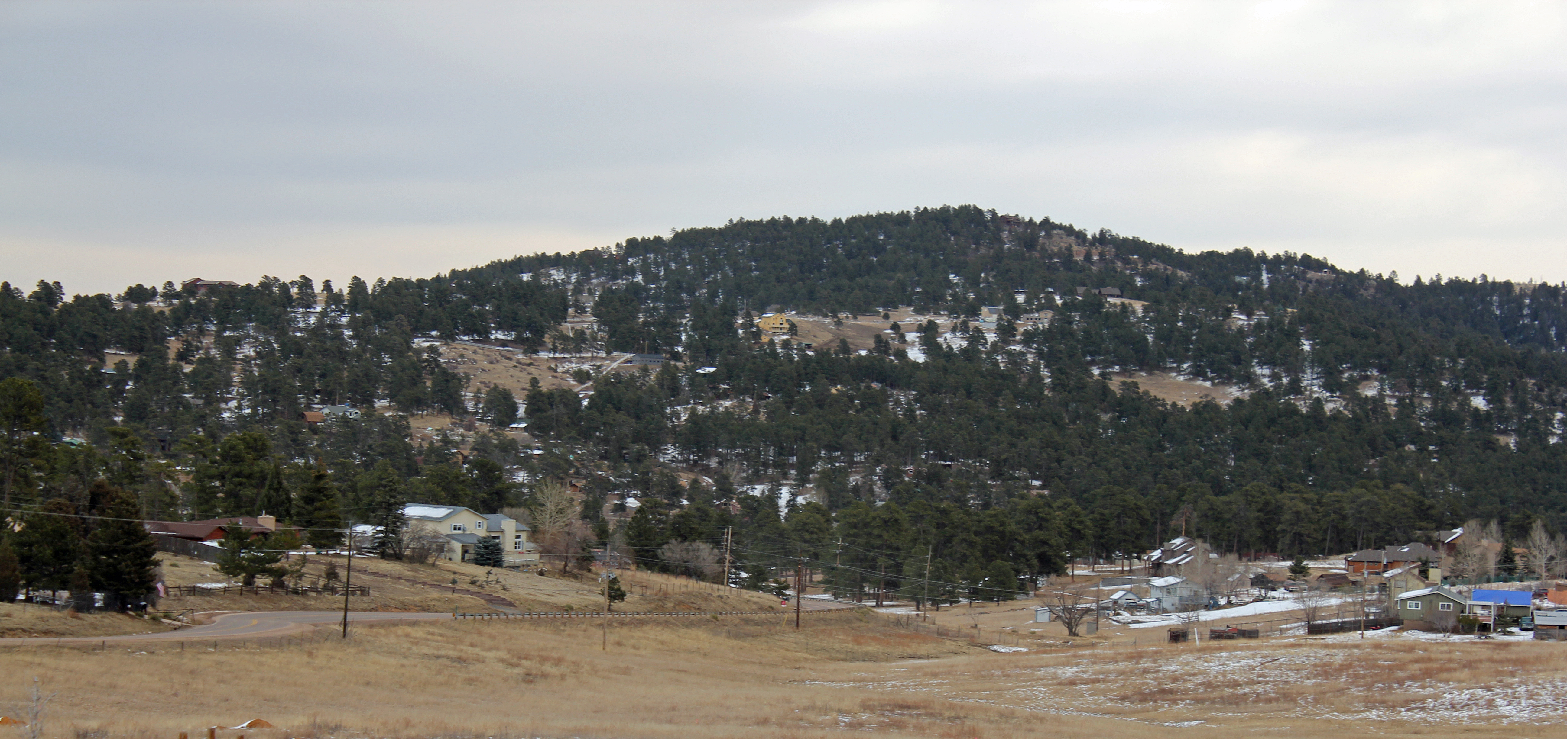 The community of Indian Hills, Colorado, located in Jefferson County. The view is from Inca Road, and the road visible in the photo on the left is Parmalee Gulch Road.